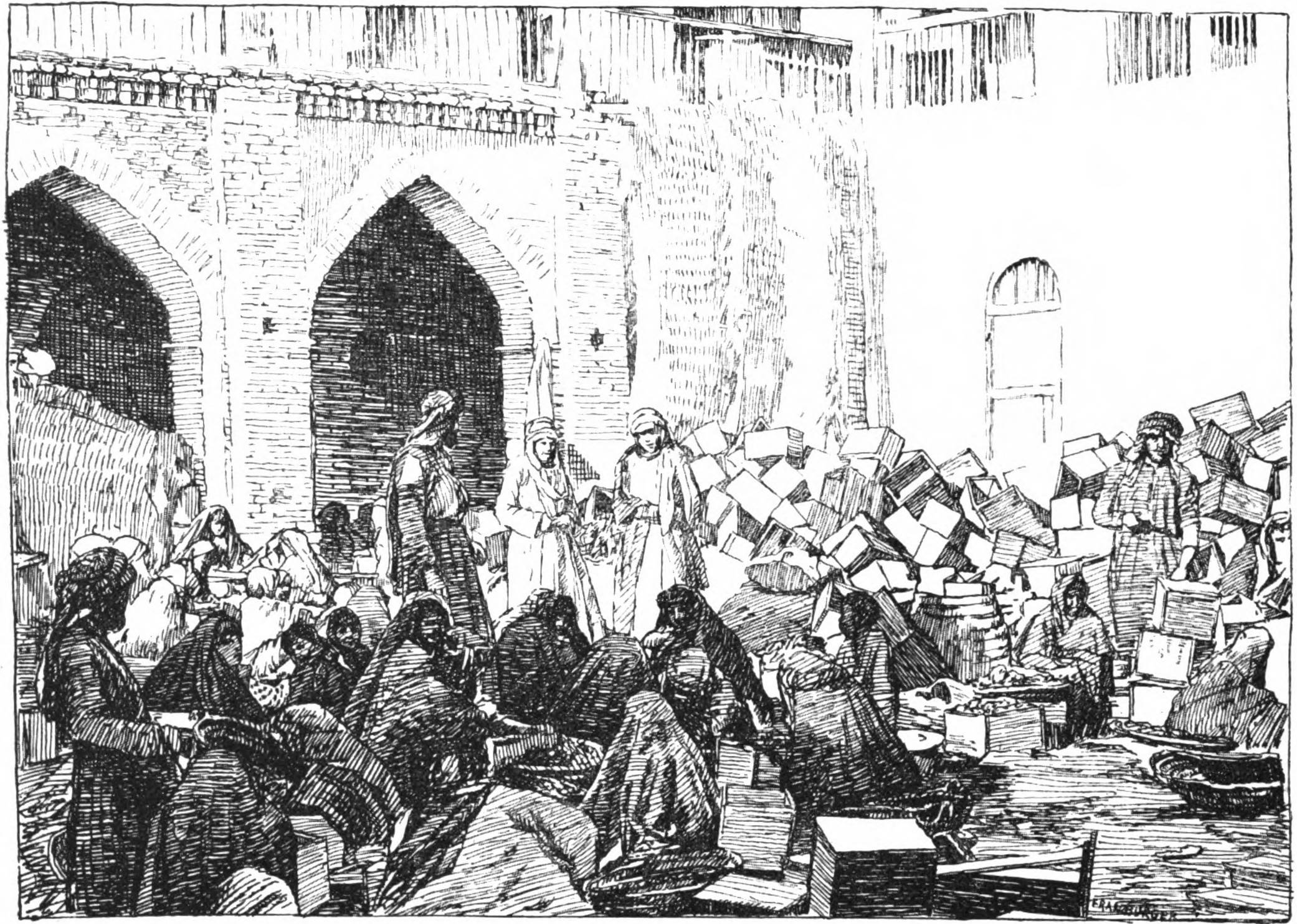 Extracted image from page 365 of the source book; image caption: „Bei G. Asfar in Basra.“